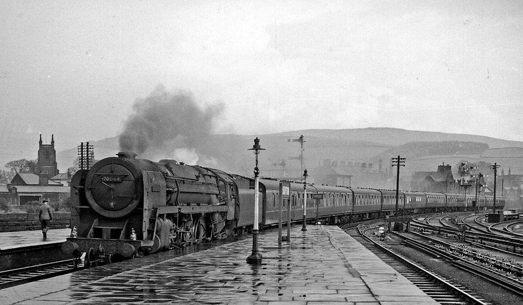 Down 'Thames-Clyde Express' entering Skipton Station. View eastward, towards Keighley, Leeds, Bradford etc.; ex-Midland London/Bristol - Sheffield - Leeds - Carlisle main line. The line from Otley and Ilkley (with a branch from Grassington, closed in 1930) used to come in from the left crossing the main line just beyond the end of the train, but closed on 22/3/65, though it still carries freight traffic); at the other side of the station a line branched off to Colne and this was closed on 2/2/70. In the distance are Skipton Moor and Rombalds Moor. The 'Thames-Clyde Express' had left London St Pancras at 10.15 and reached Glasgow St Enoch via Carlisle and Dumfries at 19.45. Here it is headed by BR Britannia Pacific No. 70044 'Earl Haig'.